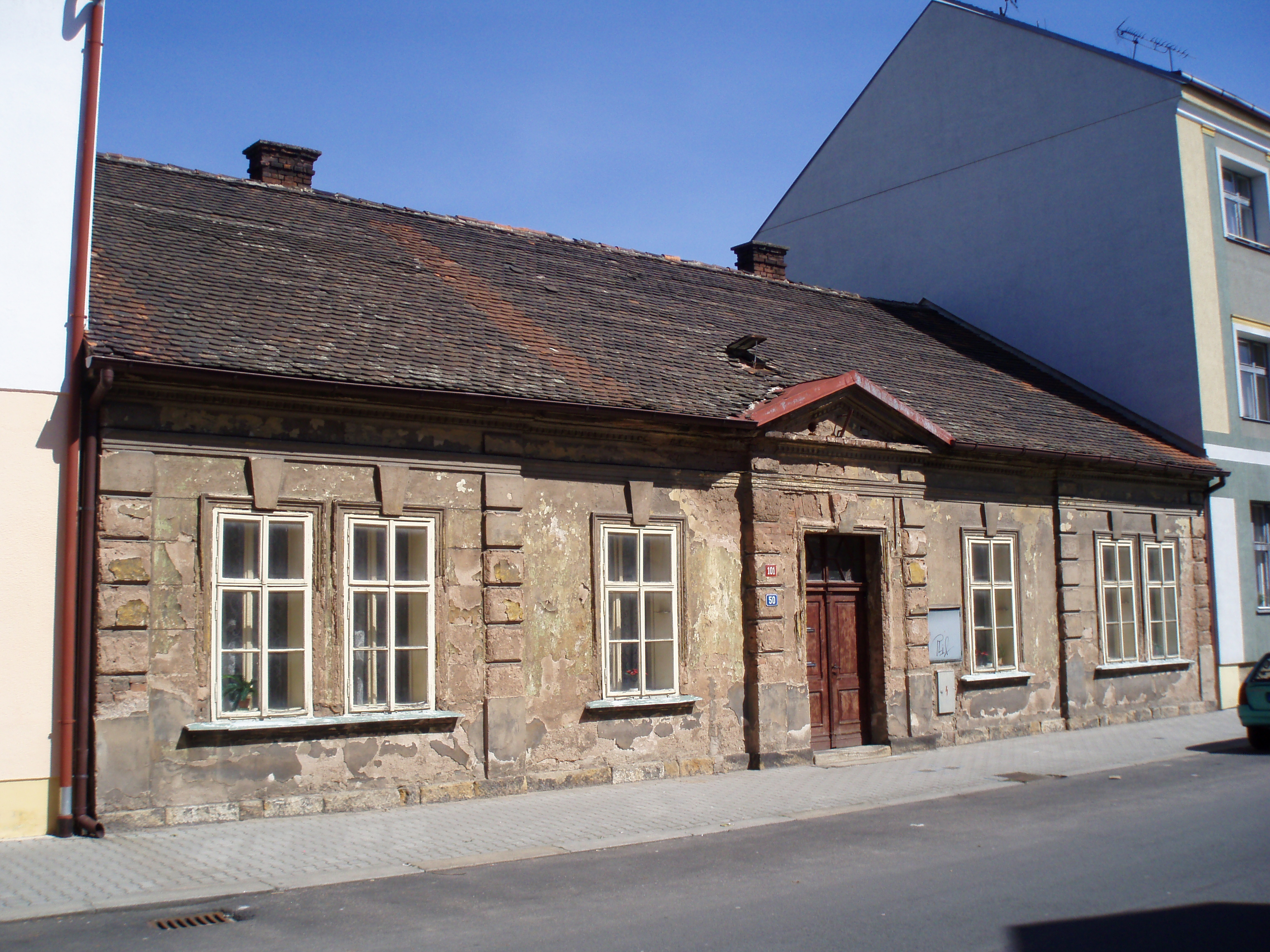 House Nr 101 in Street Nerudova in Hradec Králové (Czechia)